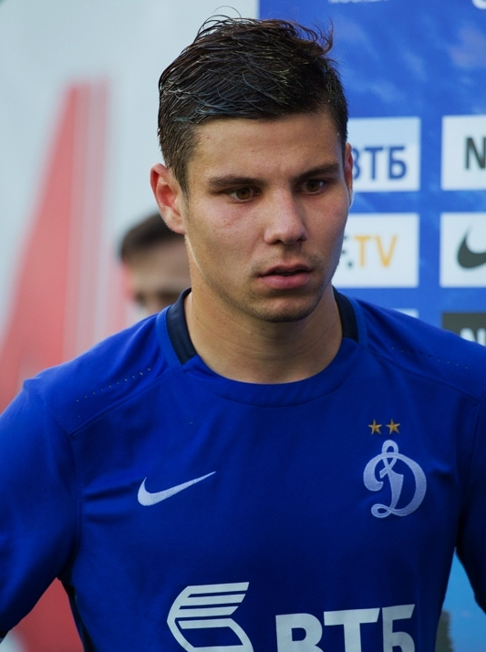 Grigori Pavlovich Morozov